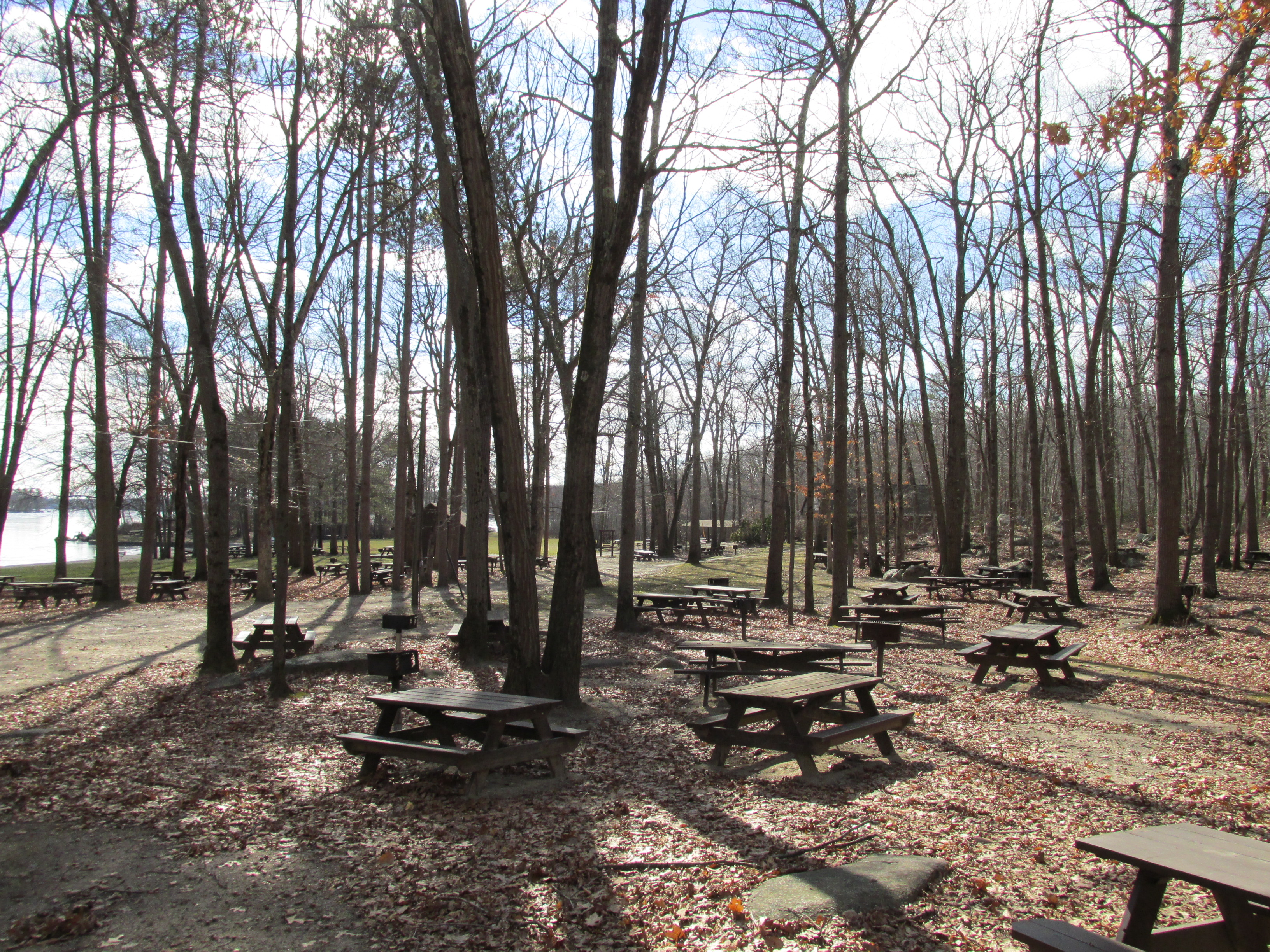 Douglas State Forest, Douglas Massachusetts